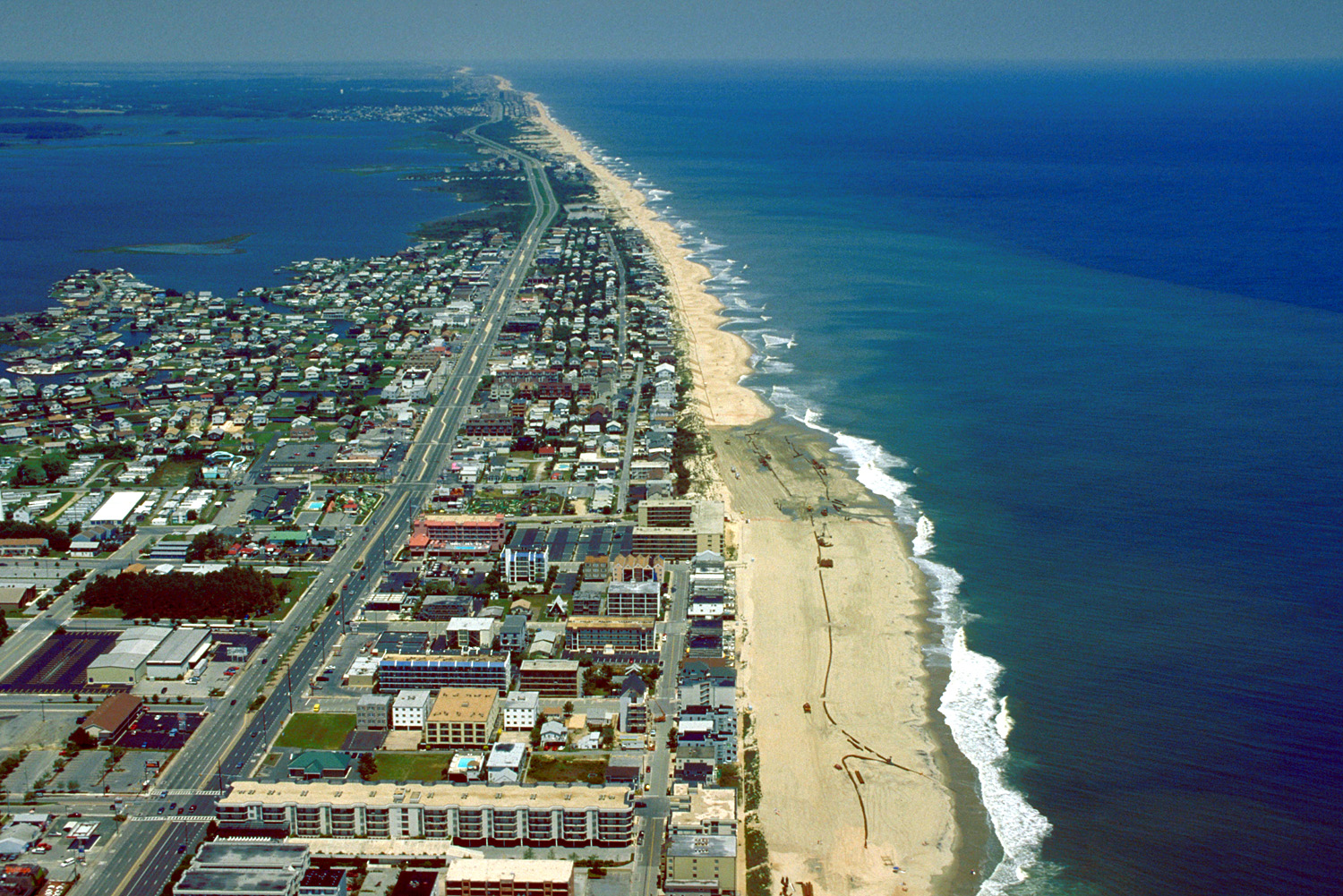 Aerial view of Ocean City, Maryland, USA. View is to the north-northeast.